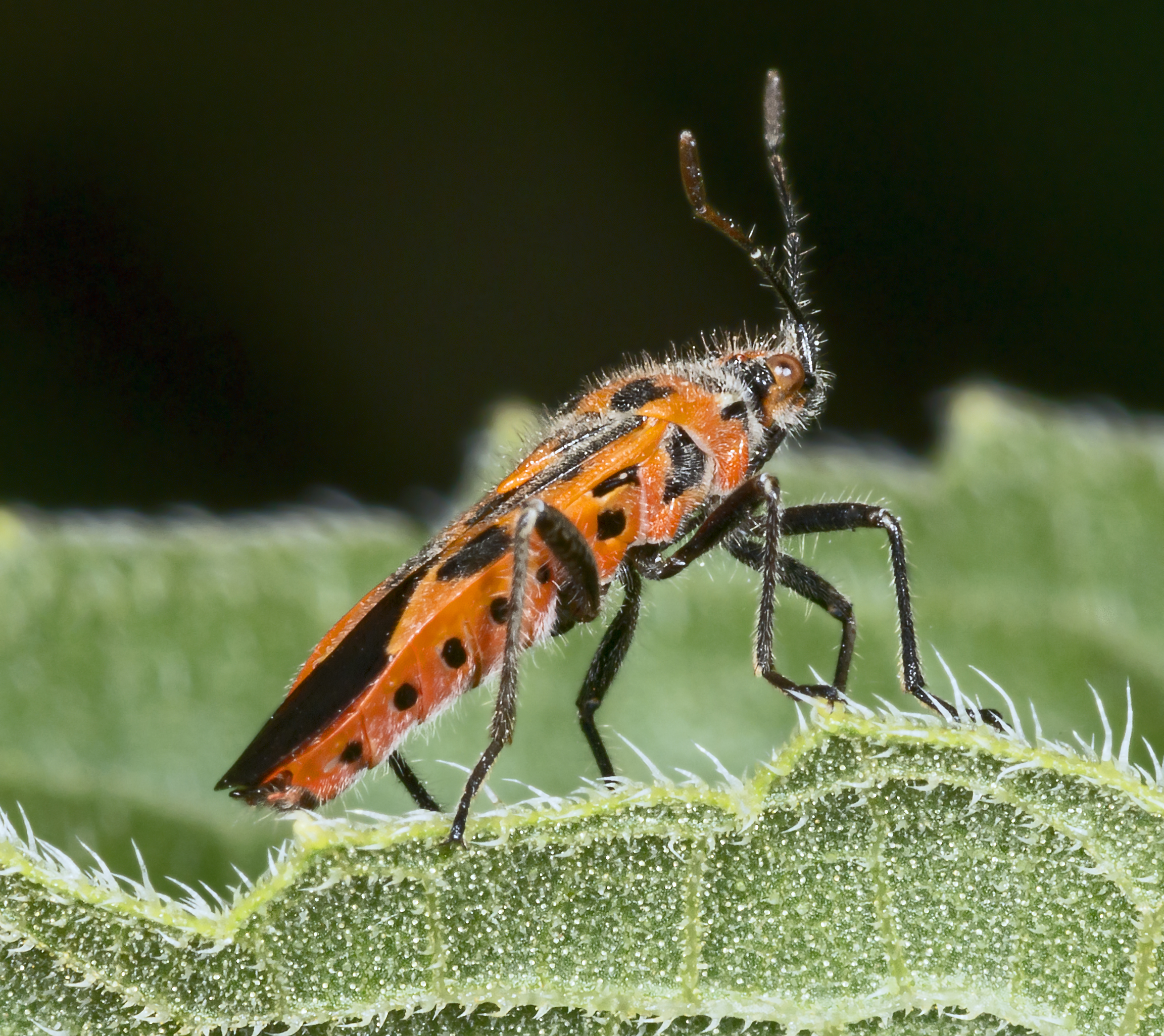 Scentless Plant Bugs, side view.